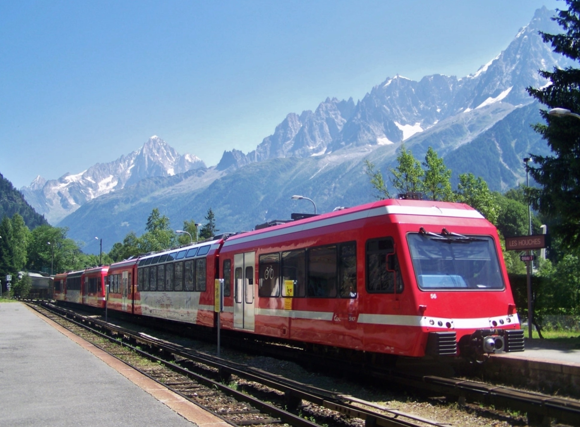 French regional train coming from Chamonix-Mont-Blanc and bound for Saint-Gervais-les-Bains is here stopping at Les Houches railway station, in Haute-Savoie.